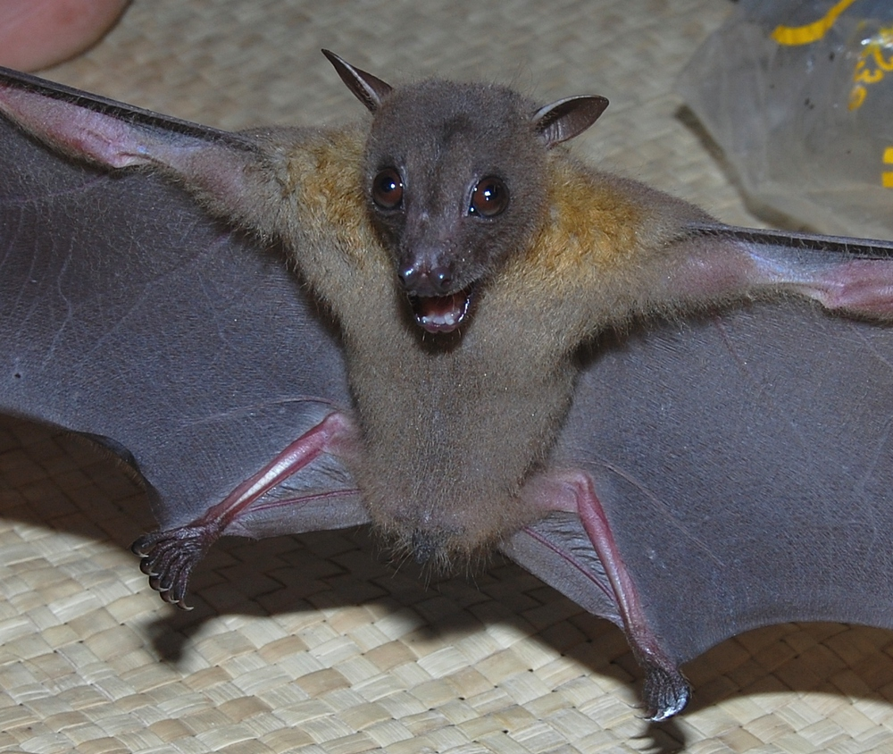 Minute Fruit Bat (Cynopterus minutus), forearm 54mm. From Simeulue, Aceh.